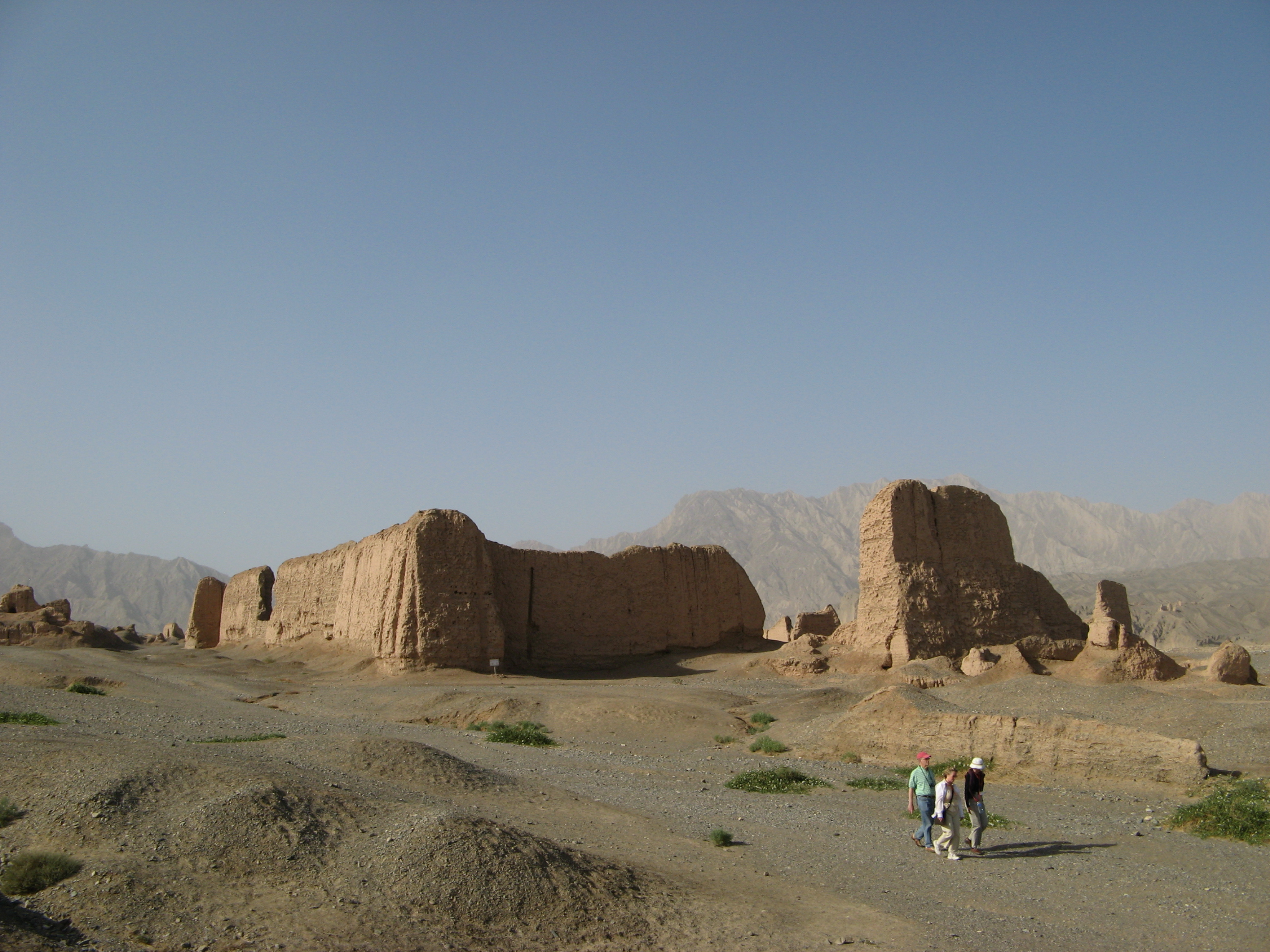 Royal Temple, Subashi. Near Kuqa, in Xinjiang. The ancient city of Subashi, now a desert ruin, is a large Buddhist monastic complex located 30km (19mi) north of Kuqa. It was occupied from Han times, and abandoned during the Islamic period (12th century AD). In the Tang dynasty it was visited by the great Buddhist traveling monk, Xuanzong. The archaeological site extends for more than half a kilometer on either side of the Kuqa river. Since it has never been formally published, these is less reliable information about it than one would like. The structure seen here, sometimes called the "Royal Temple," was a vihara (monastic compound) under the patronage of the rulers of Kuqa.